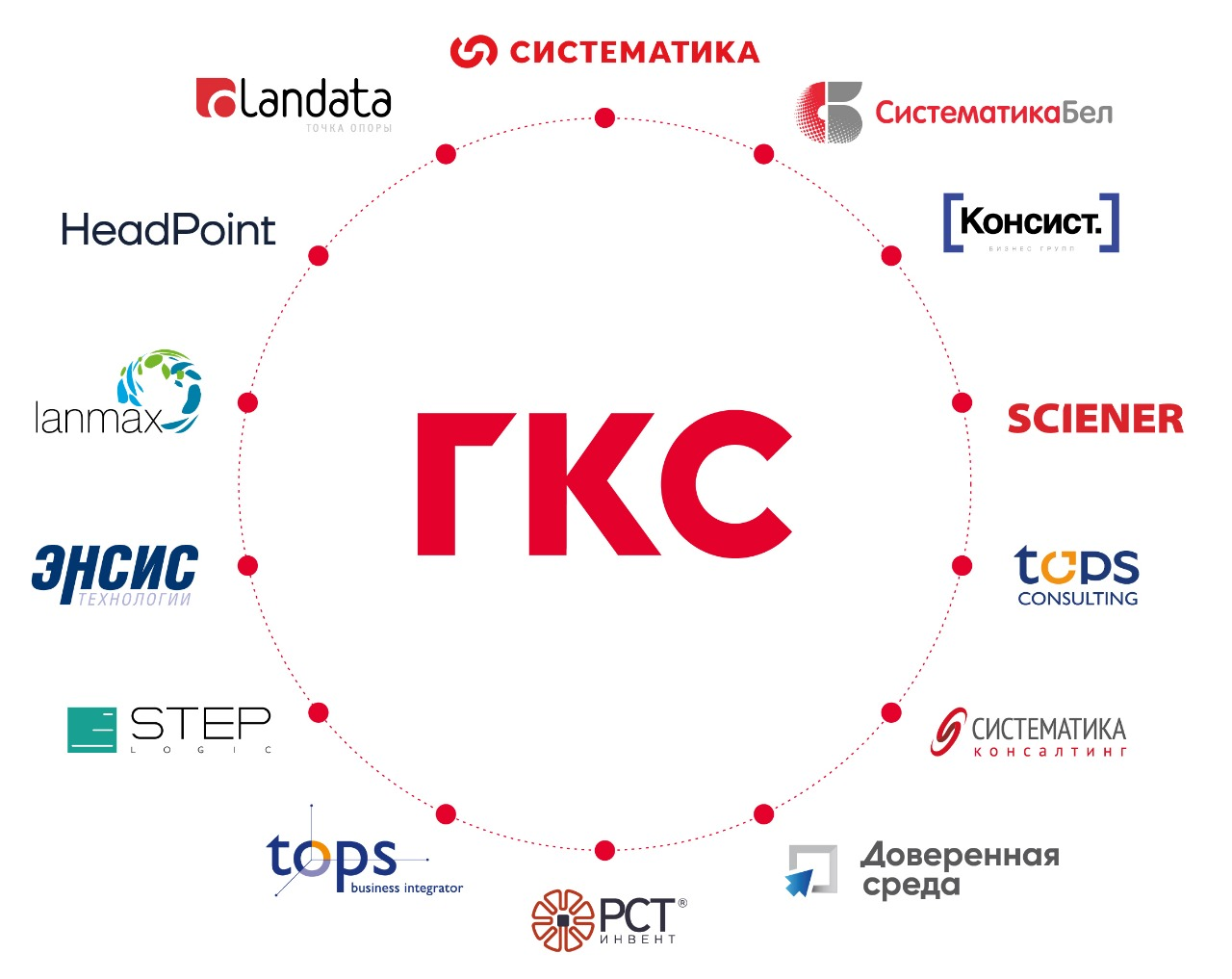 GCS 2020